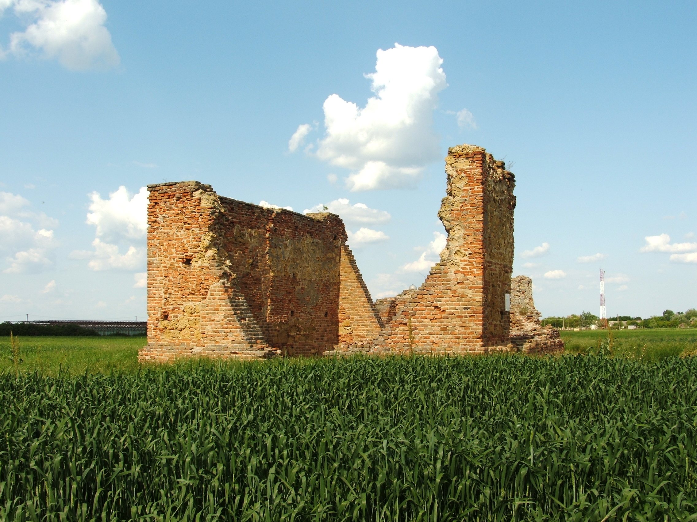 en: Church of the medieval village Ecser near Szentes, Hungary. The village itself was destroyed during the Ottoman-Hungarian wars in the 1500s. hu: Az ecseri templomrom Szentes határában. Ecser falu a török hódítások alatt semmisült meg az 1500-as években.